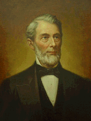 John Wood Hall of Delaware (1817-1892) Courtesy of Delaware Department of State, Division of Historical and Cultural Affairs. Collection of the Delaware State Museums. Per Jeff Hague, Registrar of Regulations, Legislative Council, State of Delaware, image is not copyright and is used with permission. Hall of Governors Portrait Gallery.